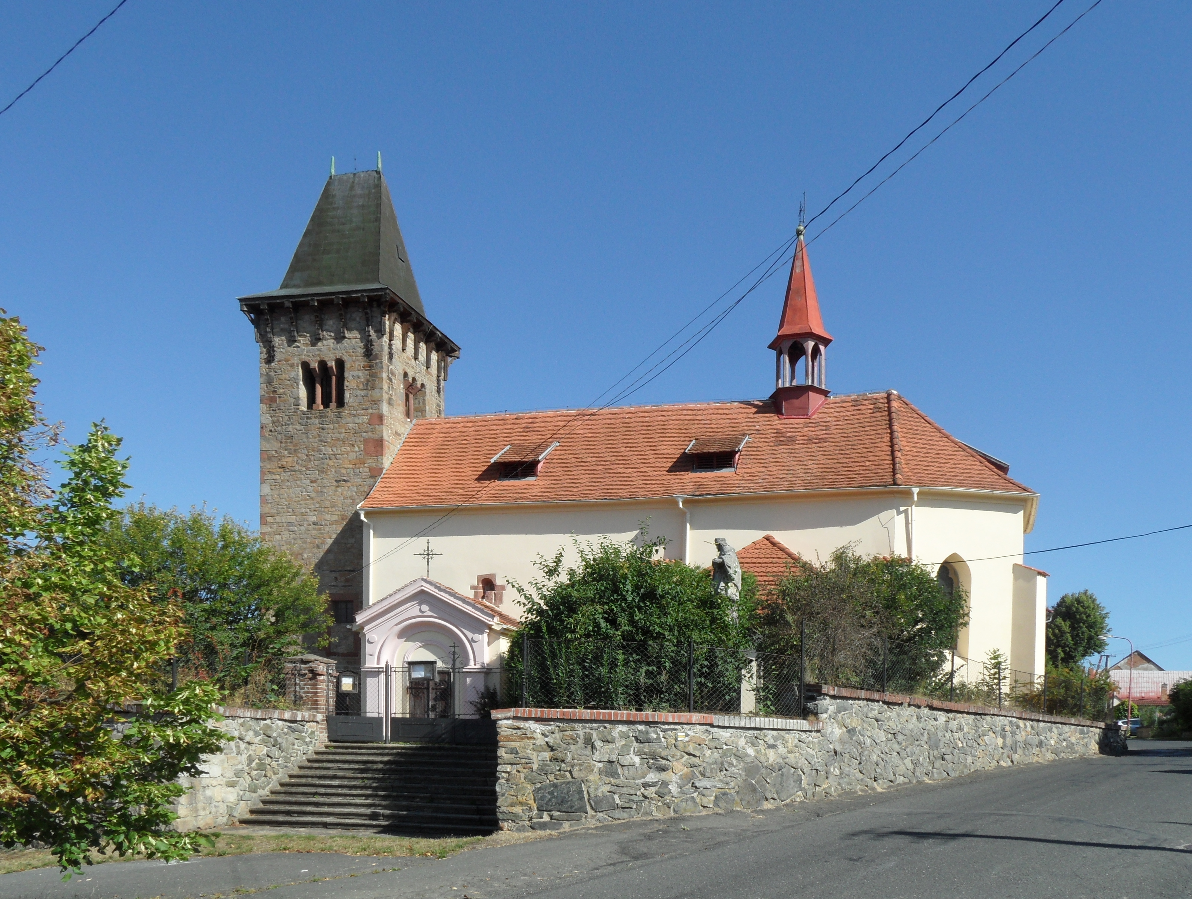 Pertoltice A. Church of Saint George (Cultural Monument), Kutná Hora District, the Czech Republic.